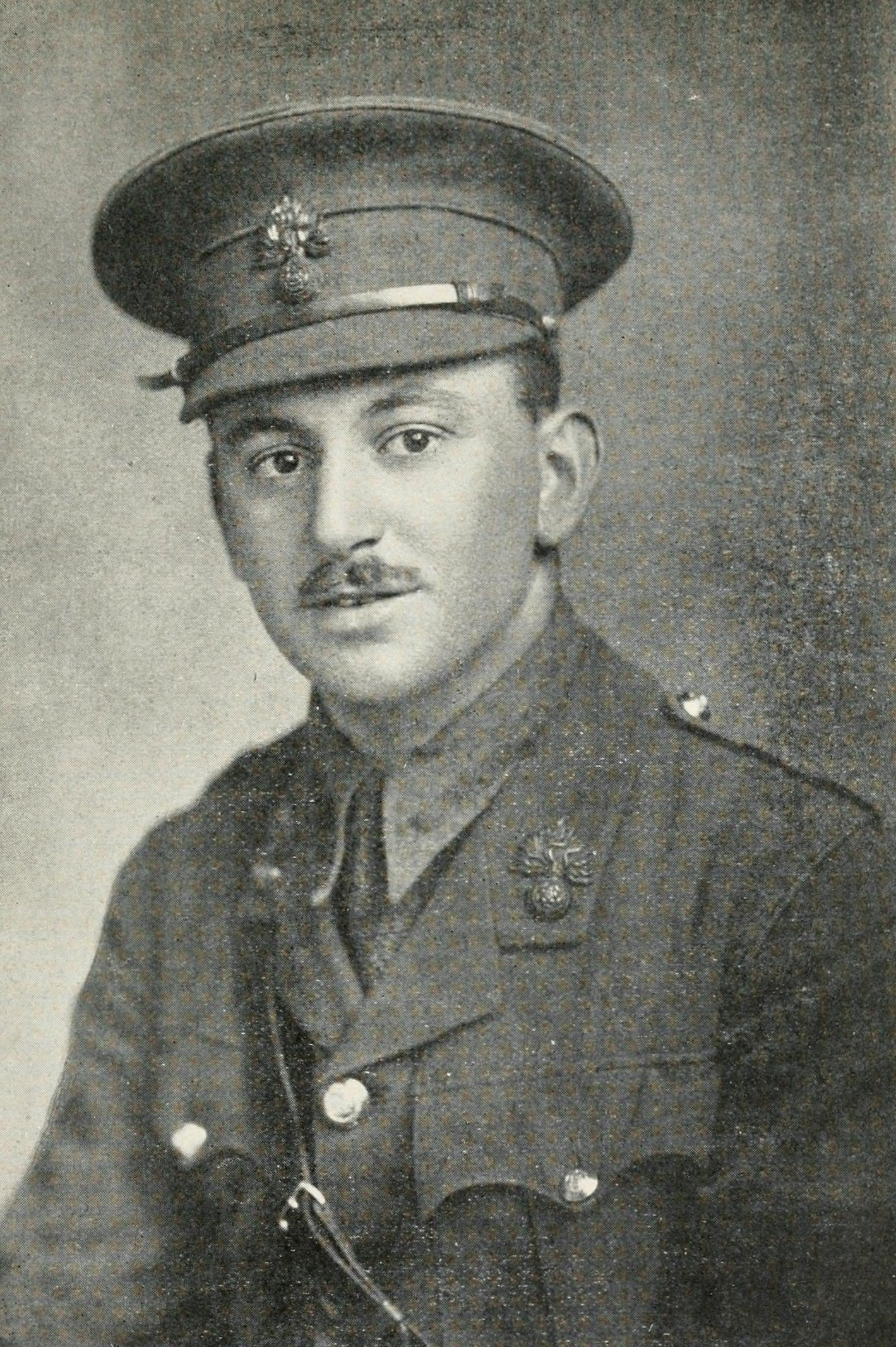 Portrait of Roland Philipps (1890–1916), taken by Elliott and Fry during World War I, before his death on 7 July 1916.